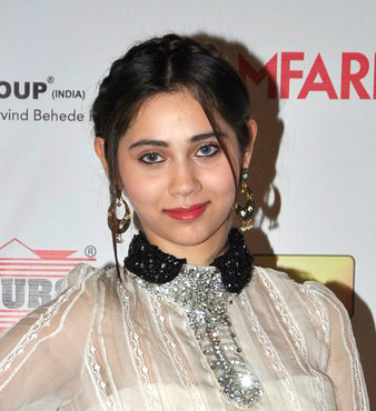 Sasha Agha at the 59th Idea Filmfare Awards 2013 Pre-Awards party